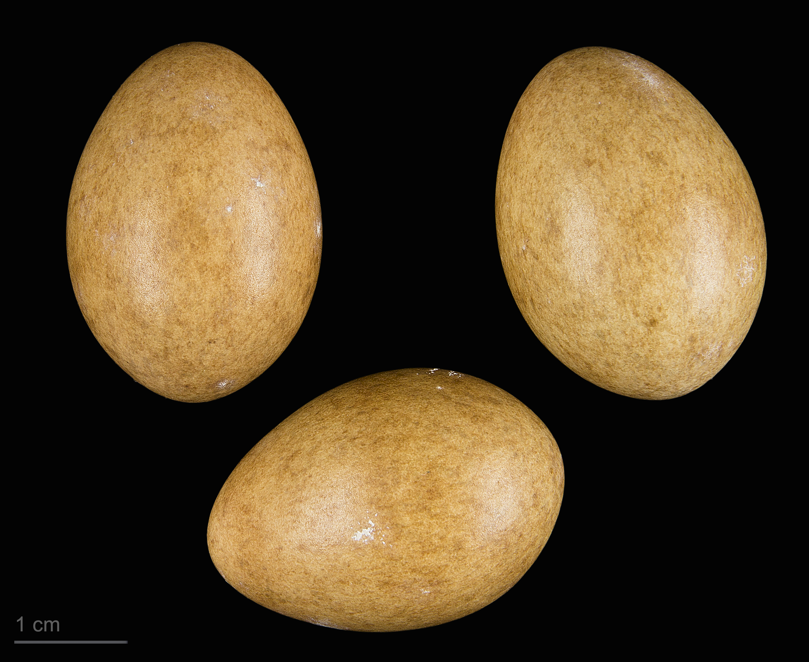 Eggs of little crake Three specimens of the same spawn ; collection of Jacques Perrin de Brichambaut.